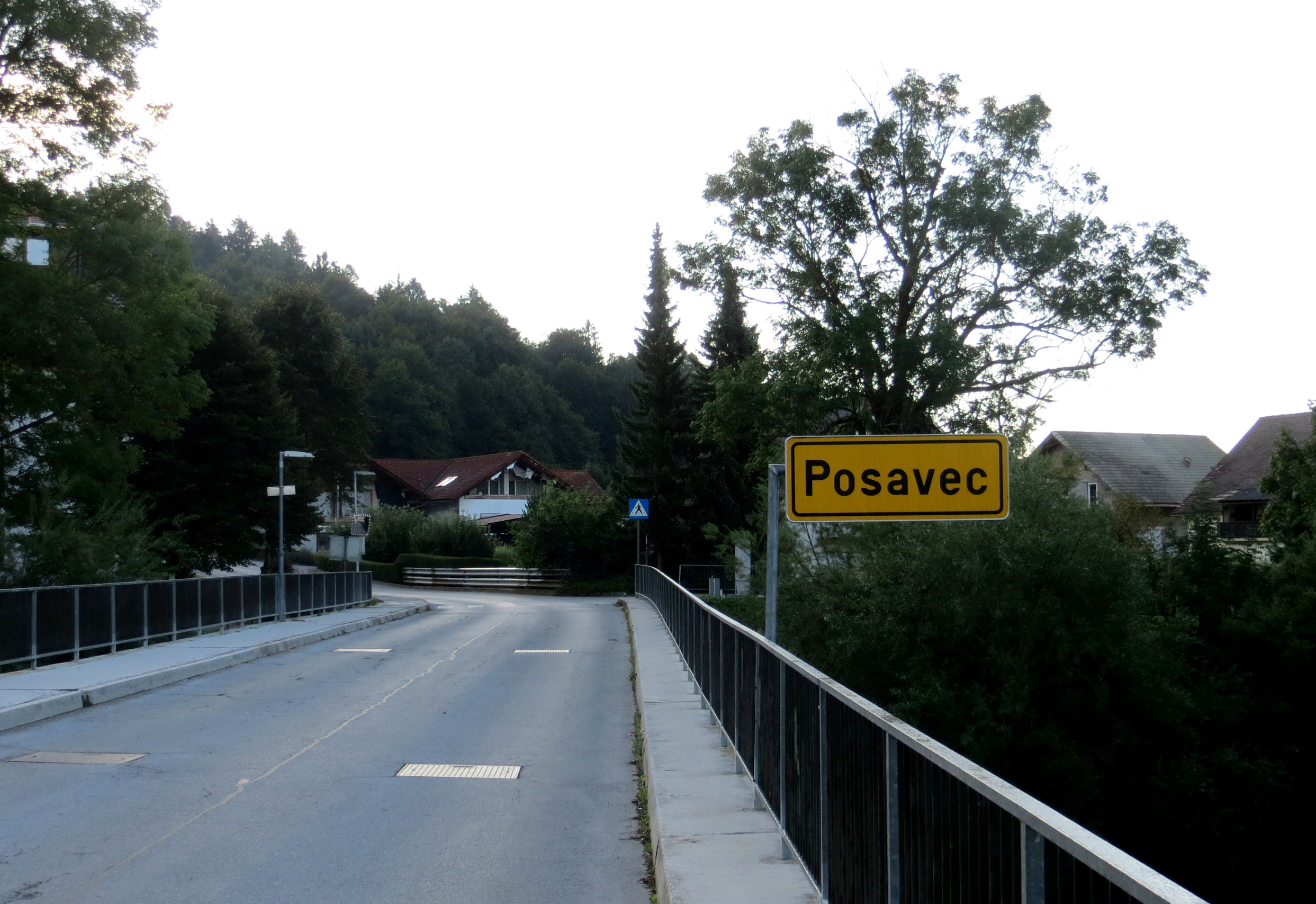 Posavec, Municipality of Radovljica, Slovenia